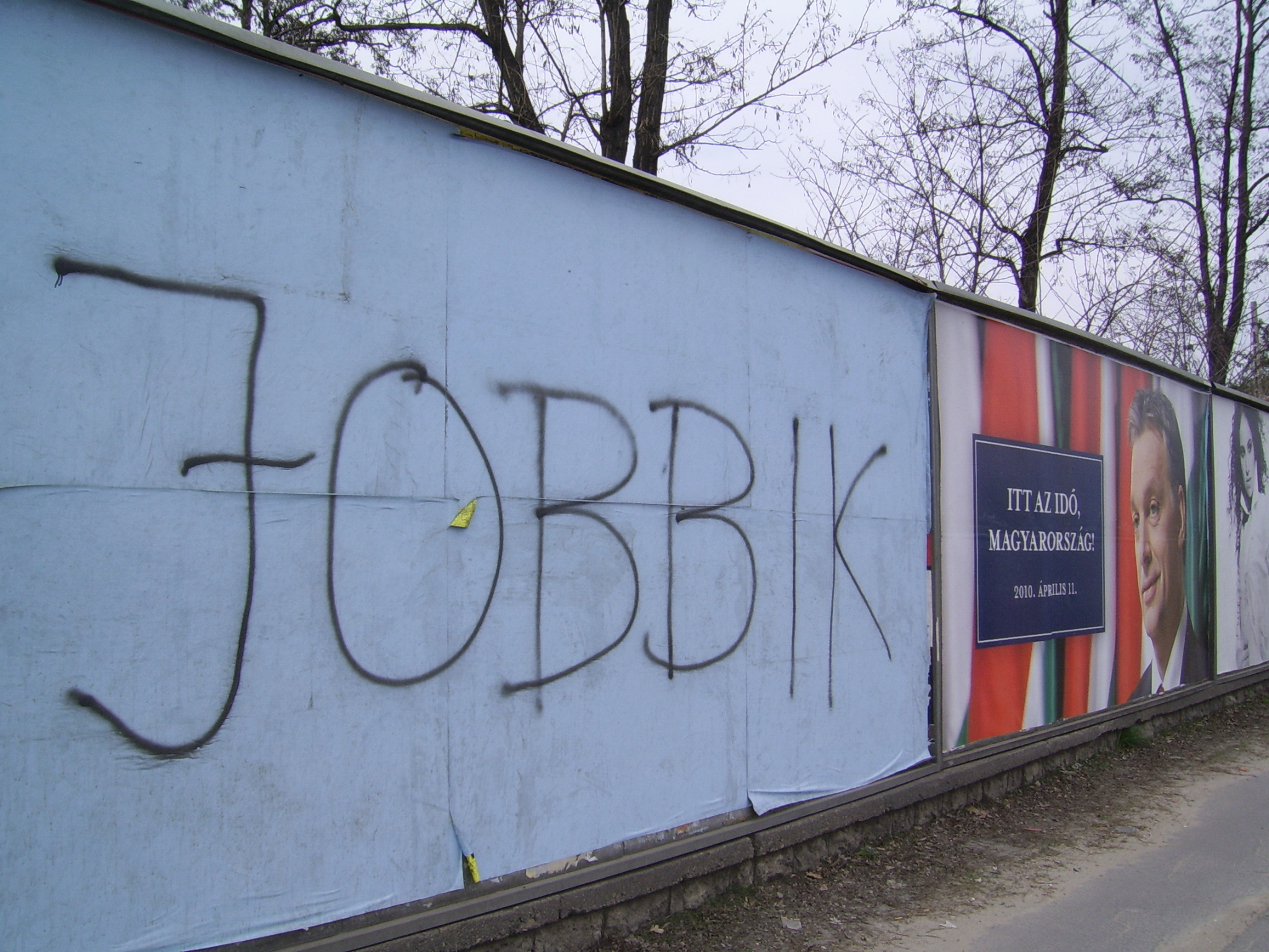 Campaign before the 2010 elections in Hungary: "wild postering" by Jobbik activists, to flank on the Fidesz's advertising.